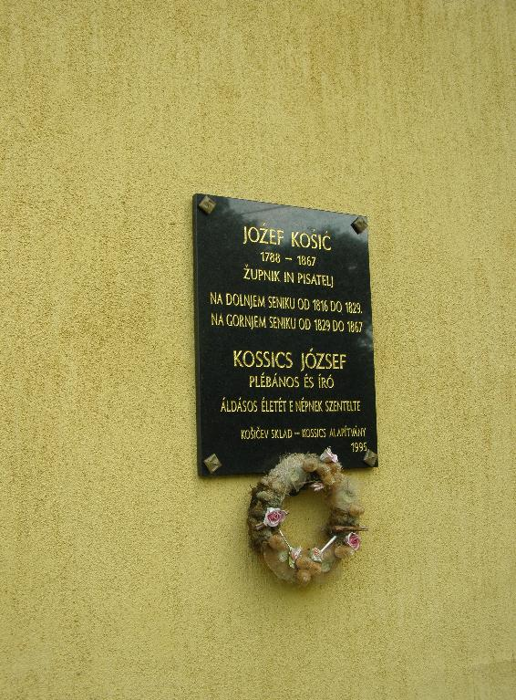 The memorial tablet of József Kossics in the Felsőszölnökian Church